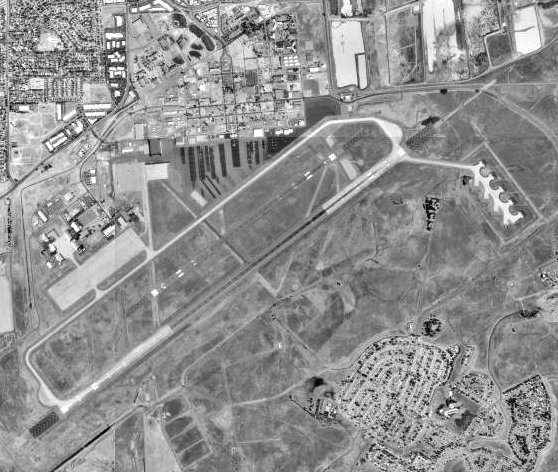 USGS orthophoto of Sacramento Mather Airport (formerly Mather Air Force Base) in California, United States.